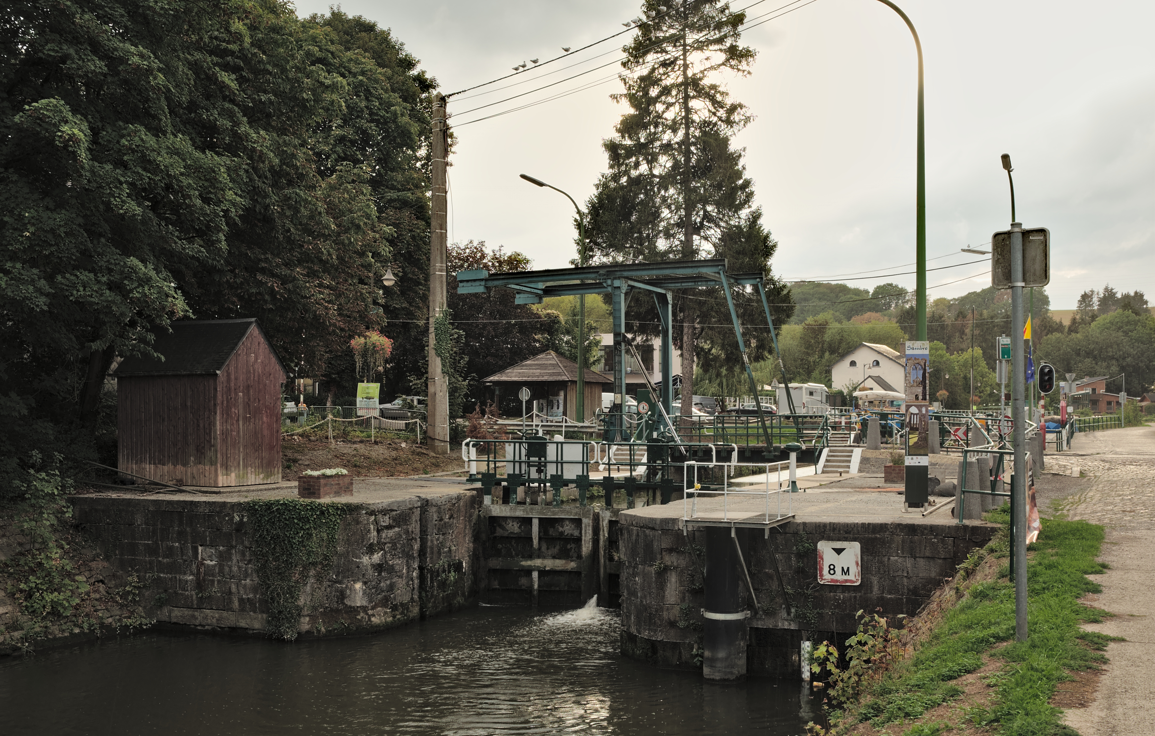 Canal lock 8 in Fontaine-l'Évêque This photo of immovable heritage has been taken in the Walloon Region